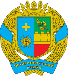 Coat of Arms Sharhorod Rayon Vinnytsia Oblast Ukraine